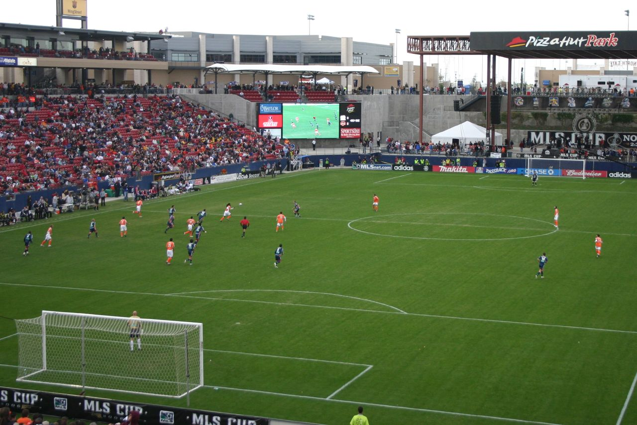 Photos taken at MLS Cup 2006. The Houston Dynamo defeated the New England Revolution 4-3 on penalties after the two teams drew 1-1 at the end of extra time. 11/12/2006 Pizza Hut Park, Frisco, Texas.